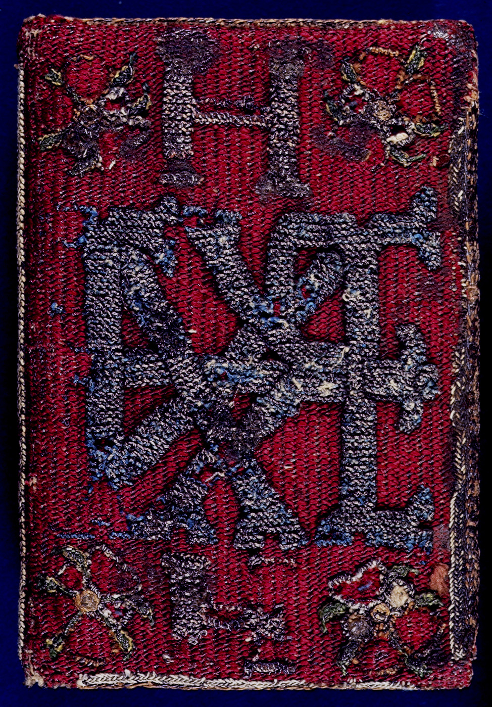 Embroidered back cover [Whole cover] Crimson silk binding, embroidered with gold and silver thread and coloured silks, with a monogram on the name Katharina, and initial H' above, the Lion of England below, and Tudor roses in the corners. The binding was made for a prayer book translated into Latin, French, and Italian by Princess Elizabeth in 1545